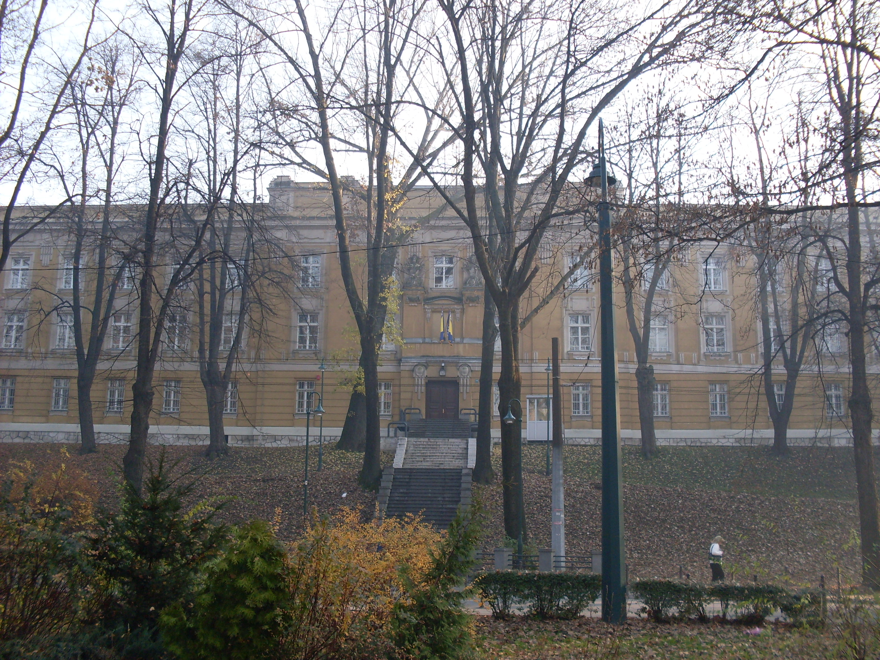 Filipović's barracks or Franz Joseph's barracks